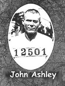 Picture of